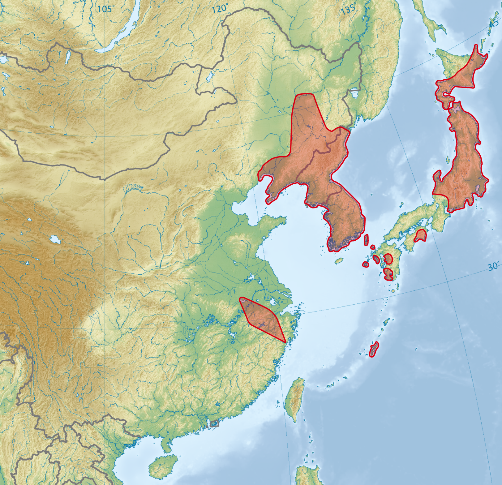 Distribution map of the Birdlike Noctule